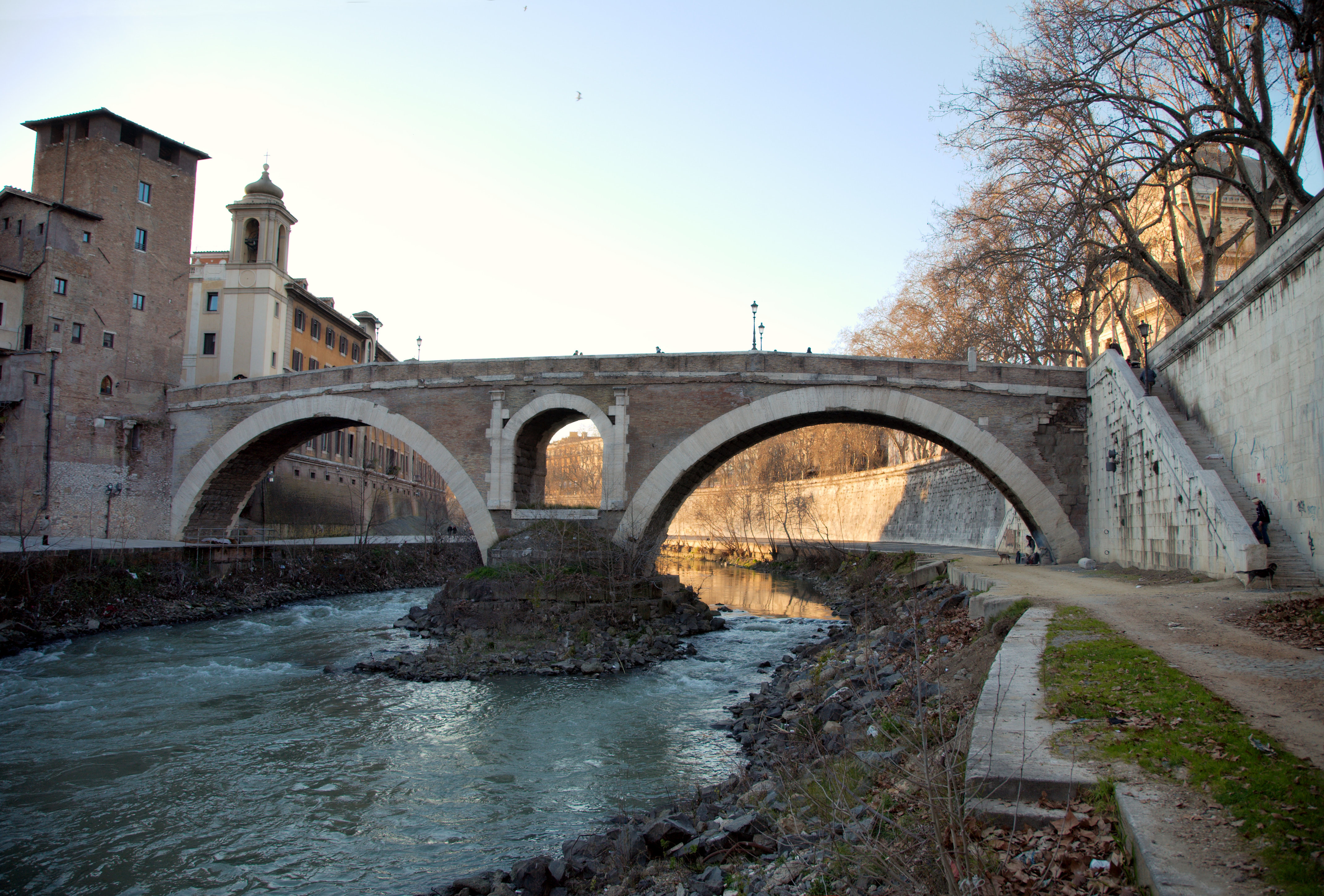 Pons Fabricius, the oldest bridge in Rome